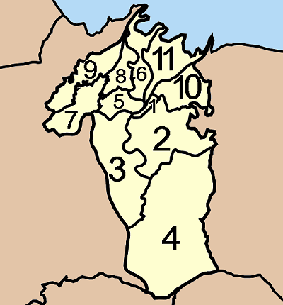 Map of Mueang district, Surat Thani province, with the communes (tambon) numbered Talat (ตลาด) Makham Tia (มะขามเตี้ย) Wat Pradu (วัดประดู่) Khun Thale (ขุนทะเล) Bang Baimai (บางใบไม้) Bang Chana (บางชนะ) Khlong Noi (คลองน้อย) Bang Sai (บางไทร) Bang Pho (บางโพธิ์) Bang Kung (บางกุ้ง) Khlong Chanak (คลองฉนาก)